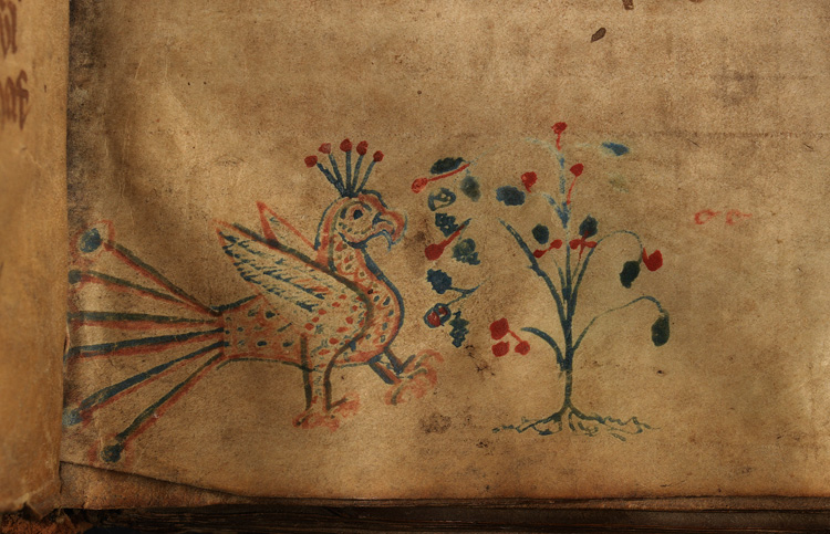 A Welsh text of the Laws of Hywel Dda, including a number of illustrations. The manuscript contains 115 folios made from parchment, and the wooden cover dates from the Middle Ages.